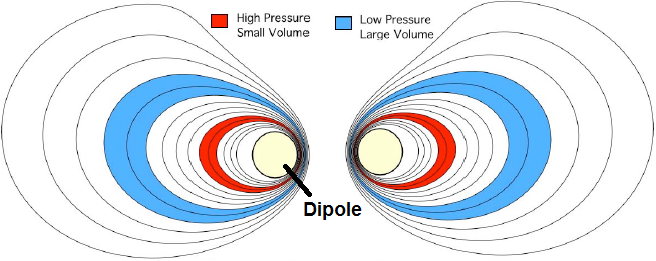 The levitating dipole experiment is a MIT/Columbia collaboration in plasma physics and fusion research. This figure was taken from "Overview of LDX Results" Presented at the APS Meeting, Philadelphia, November 2, 2006, but is not an exact copy. It shows two regions of plasma containment inside the LDX field, a high and low density region. These clouds ring the outside of the dipole ring. Other information The levitating dipole experiment is a MIT/Columbia collaboration in plasma physics and fusion research. This figure was taken from "Overview of LDX Results" Presented at the APS Meeting, Philadelphia, November 2, 2006, but is not an exact copy. It shows two regions of plasma containment inside the LDX field, a high and low density region. These clouds ring the outside of the dipole ring.